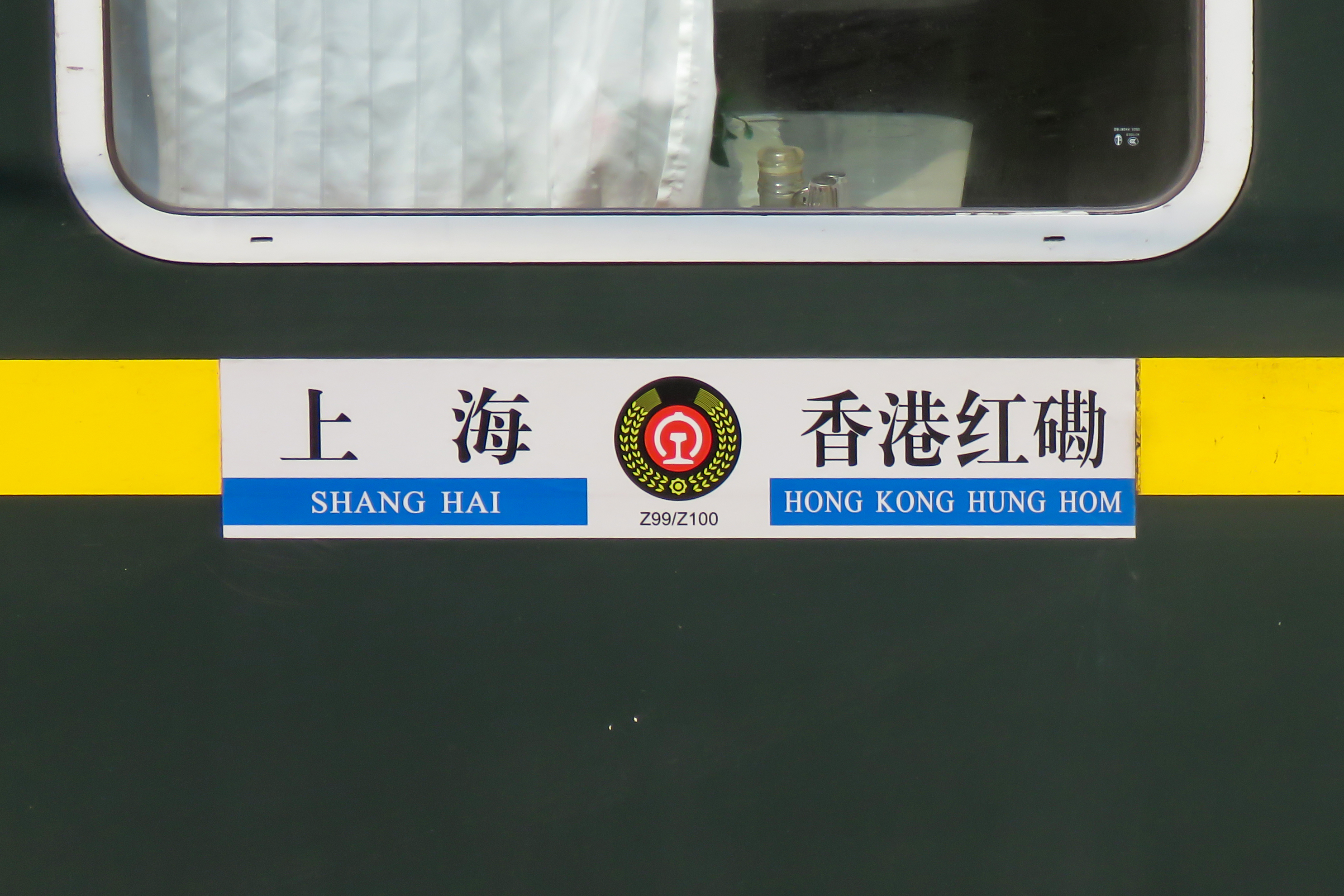 Taken near PolyU Block Z - finally got both.